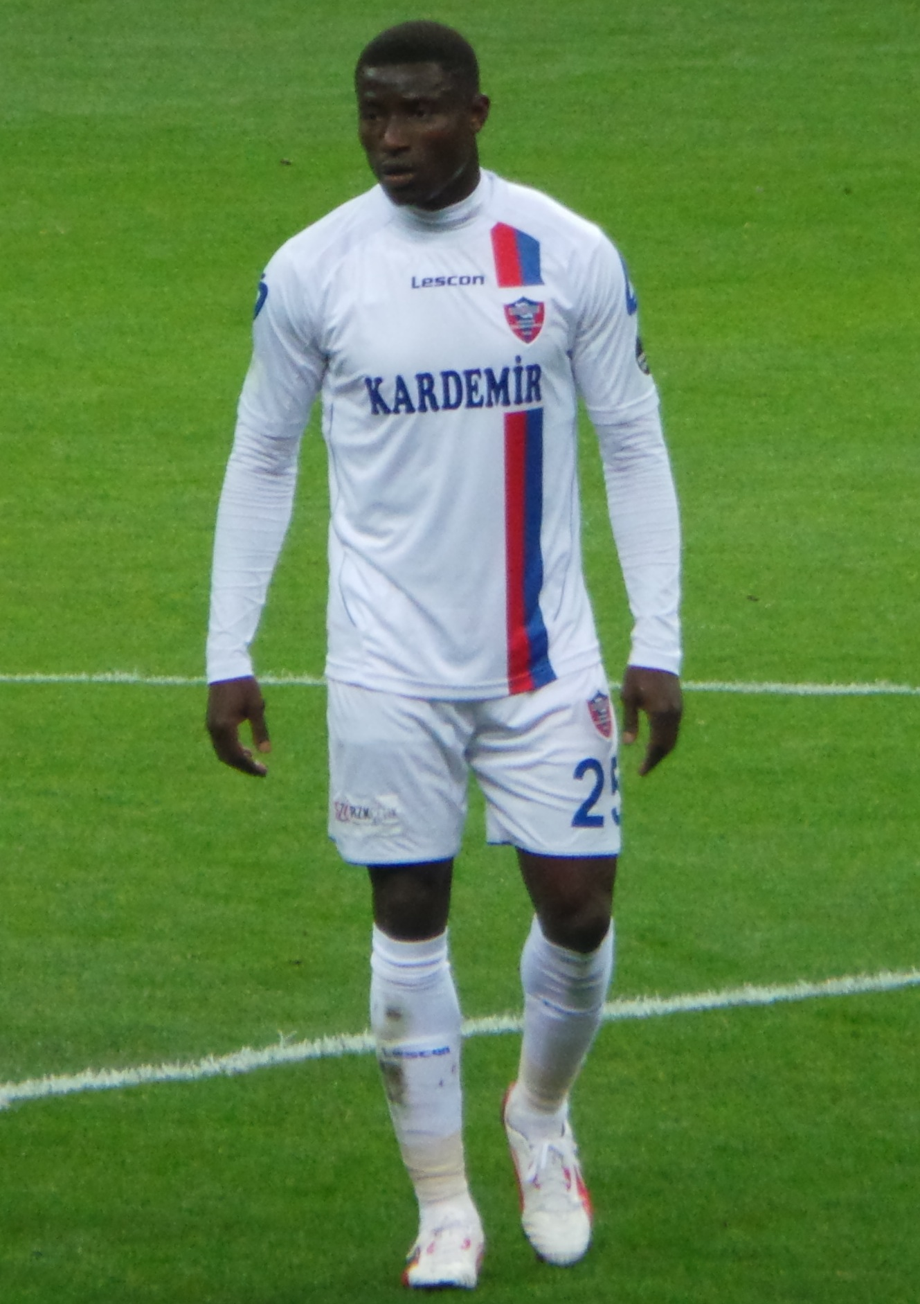 Akpala against G.S.